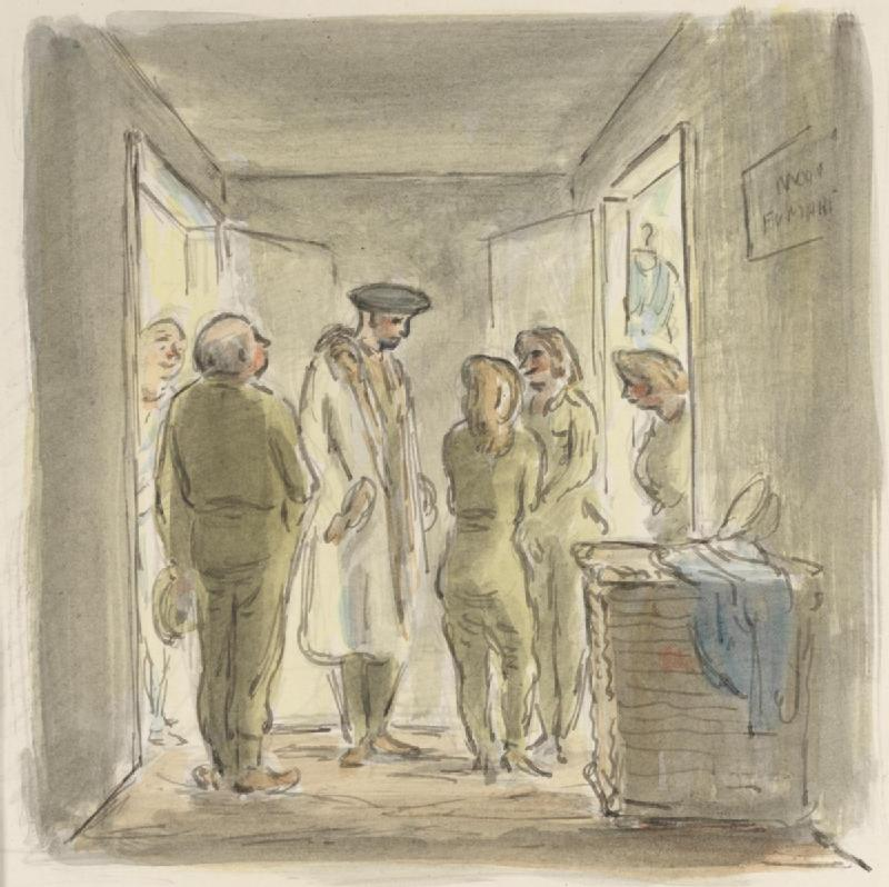 We Visit the Ensa Girls in their dressing room at the Lucera Operahouse, November 13th 1943 image: interior of a room with one door each to left and right. An officer in hat and pale coat with fur-lined collar and cuffs, a rounded balding man in khaki who could be Ardizzone himself, with another man in the left background, talk to three women on the right who are all dressed in khaki uniform. A linen basket sits in the right foreground.